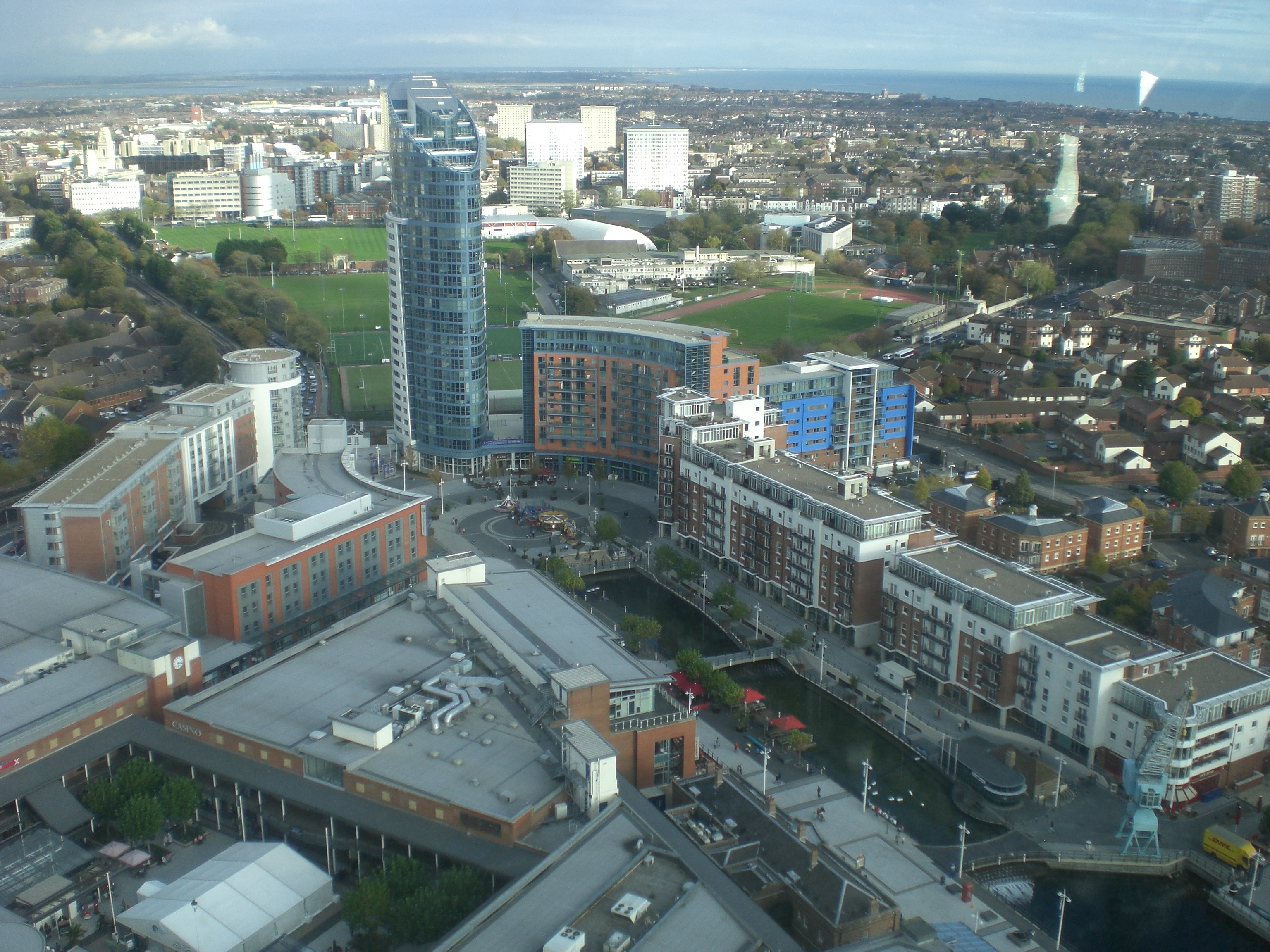 Gunwharf Quays viewed from the Spinnaker Tower in Portsmouth in October 2009.